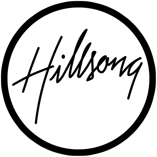 Hillsong outlined logo currently used in most promotional material. This logo is owned by Hillsong Church.